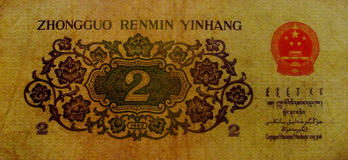 2 Er Jiao Zhongguo Renmin Yinhang